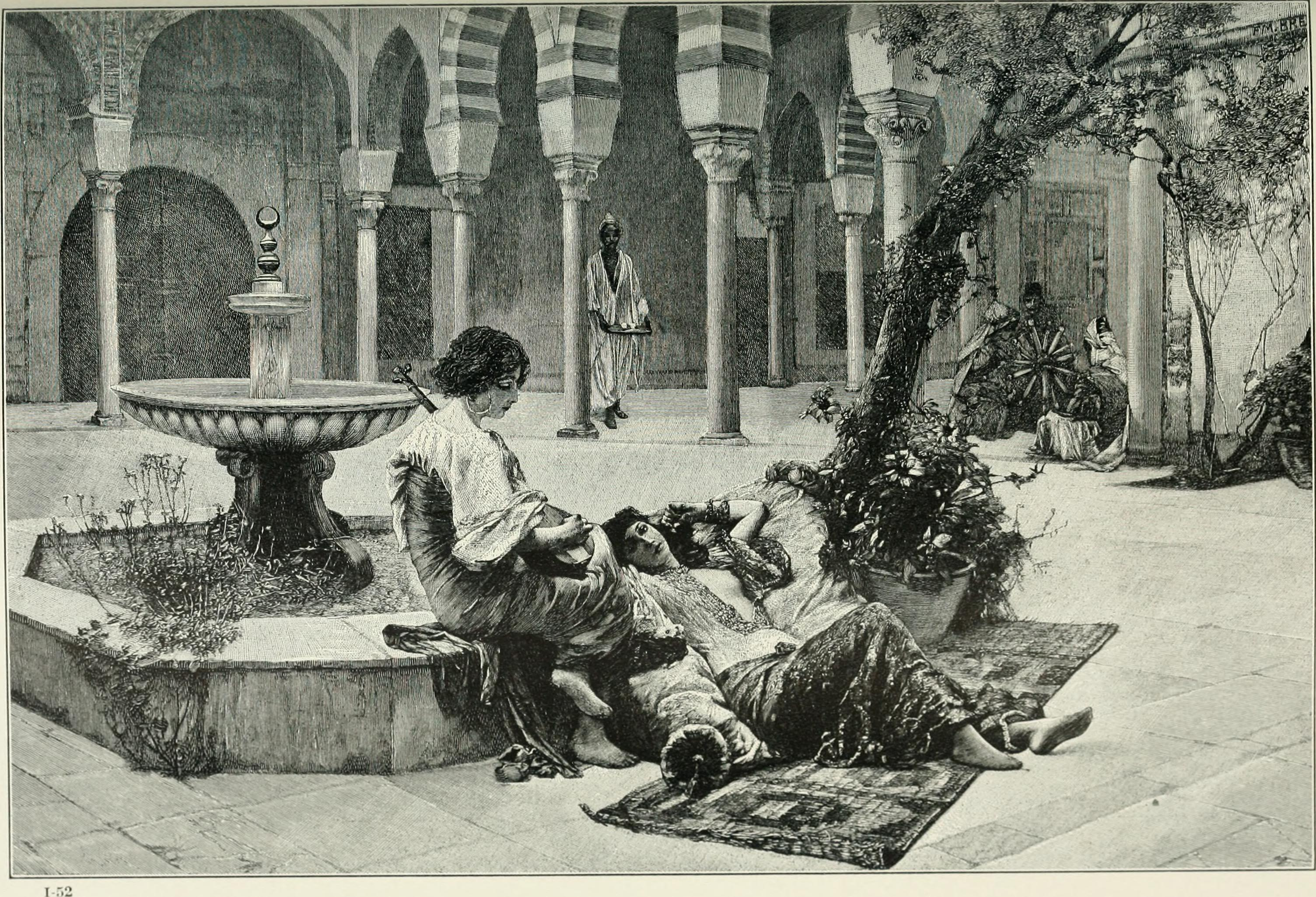 Title: The story of the greatest nations; a comprehensive history, extending from the earliest times to the present, founded on the most modern authorities, and including chronological summaries and pronouncing vocabularies for each nation; and the world's famous events, told in a series of brief sketches forming a single continuous story of history and illumined by a complete series of notable illustrations from the great historic paintings of all lands Year: 1913 (1910s) Authors: Ellis, Edward Sylvester, 1840-1916 Horne, Charles F. (Charles Francis), 1870-1942 Subjects: World history Publisher: New York : Niglutsch Text Appearing Before Image: 1-52 Text Appearing After Image: Persia—Chronology lo-? Pelusium and overthrow of Egypt. 524—Cambyses loses his armies in thedesert. 522—Revolt of the false Smerdis; Cambyses commits suicide. 521—Darius overthrows the false Smerdis and reconquers the revolted prov-inces. 515—Darius organizes the Persian empire; he invades European Scythia.490—The Greeks repel the Persians at Alarathon. 485—Darius is succeededby Xerxes. 480—The great invasion of Greece by Xerxes repelled at Salamis;Xerxes retires to PersepoHs. 479—The Persians driven from Greece by thedefeats of Platasa and IMycale. 470—Repeated naval defeats at the hands ofGreeks. 465—Xerxes assassinated; the rule of the palace officials begins.460—Egypt rebels, but is reconquered after six years of war. 405—Egypt winsindependence. 401—Cyrus, a Persian prince, fights for the empire by the aidof Greek mercenaries; he is defeated; retreat of the ten thousand Greeksunder Xenophon. 365—Asia Minor revolts from Persia. 340—Artaxerxes III.rec